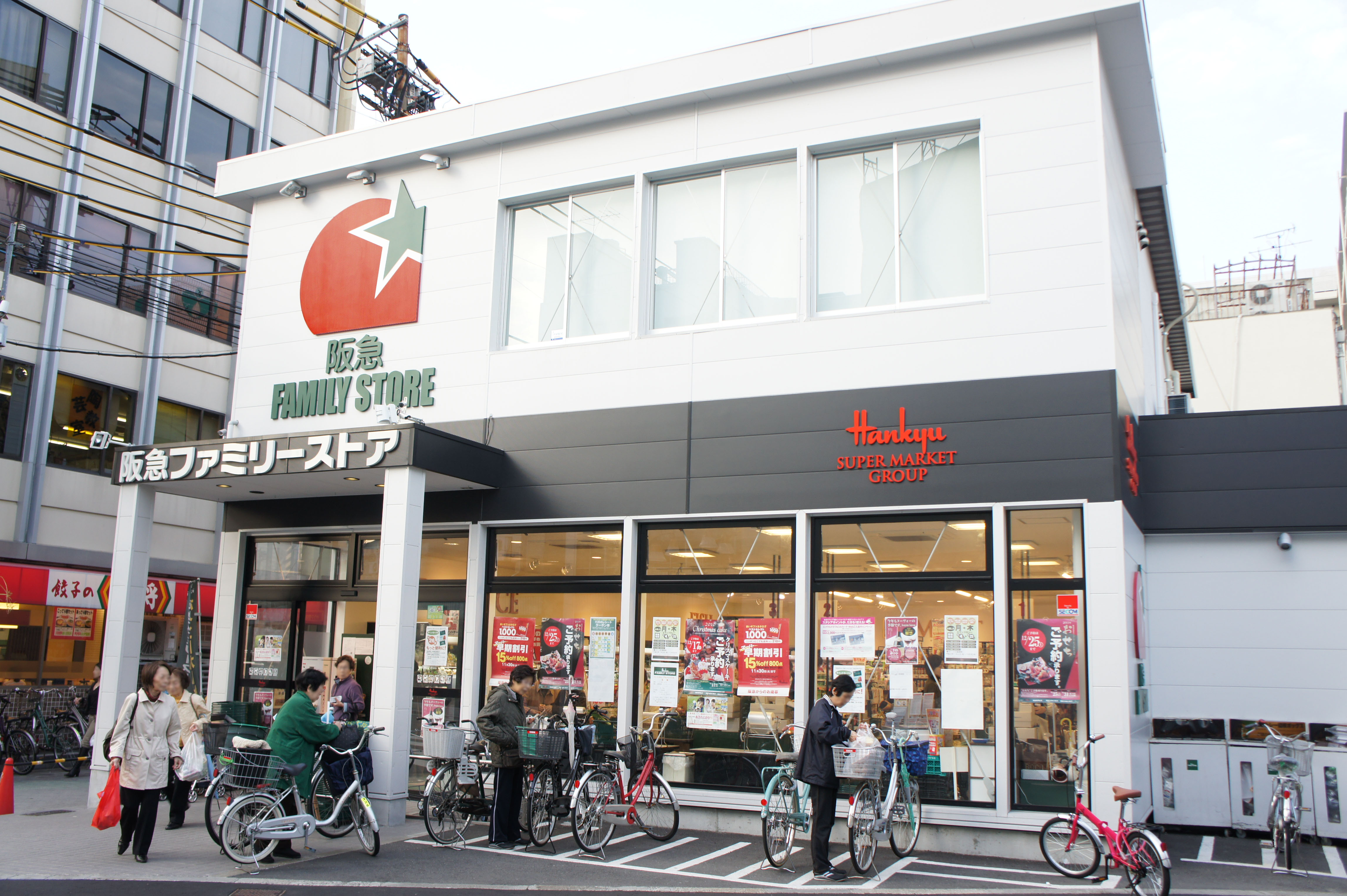 Hankyu FAMILY STORE Tenroku,7-4-6 Tenjinbashi Kita-Ku Osaka-City Osaka Japan.